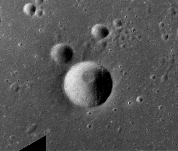 Heinrich, Mare Imbrium, on the moon. Camera Altitude is 108 km, Sun Elevation is 36° (from right). The black triangle in lower left is present on the original.